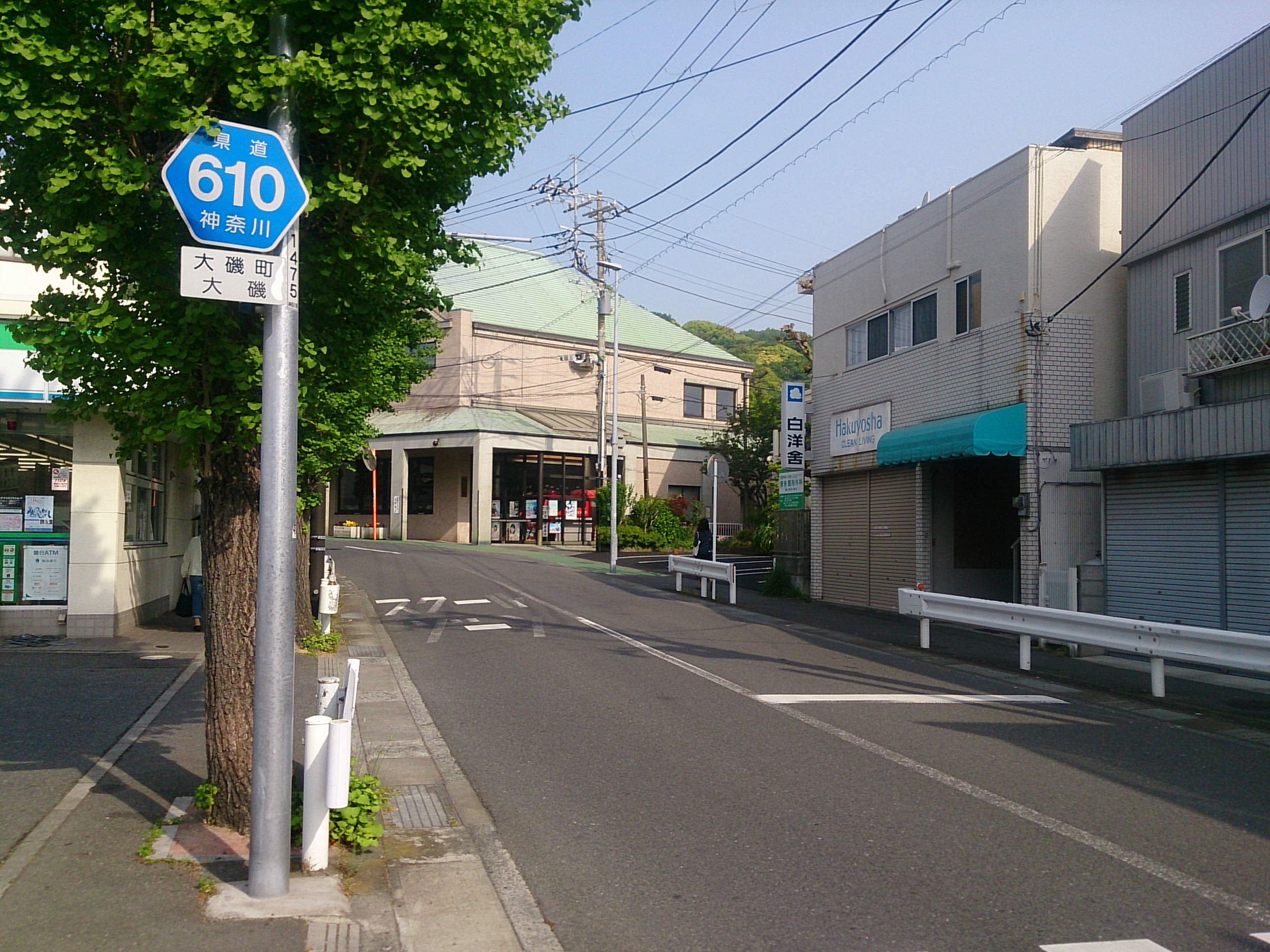 Kanagawa Prefectural Route 610, Oiso, Kanagawa